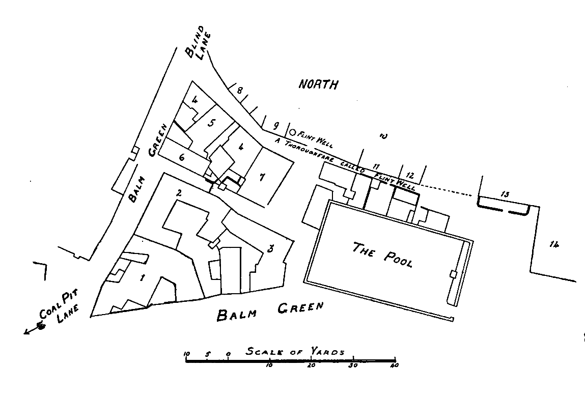 Barker Pool in 1793 Key: 1. John Smith. 2. Thomas Sayles. 3. Thomas Bennet. 4. Edward Brownell. 5. Christopher Oates. 6. Edward Alanson. 7. Thomas Maxfield and others. 8. Jonathan Moore's Tenements. 9. James Creswick's Tenements. 10. Malin Gillot and others' Tenements. 11. Allen and White. 12. Richard Ibberson. 13. John Lindley's Freehold. 14. Tenements on Town Land.